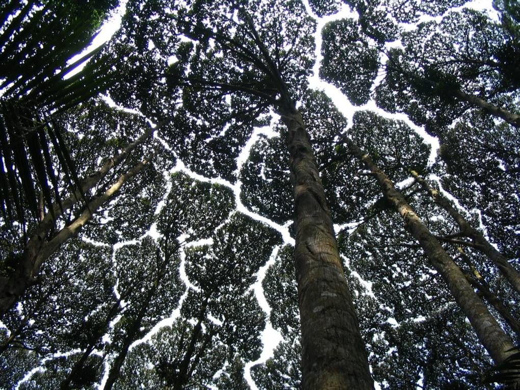 Canopy of Dryobalanops aromatica in Forest Research Center - Kuala Lumpur